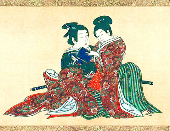 Original PD/ modified by Maris stella